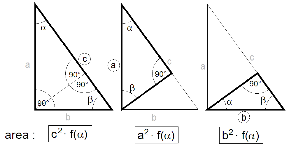 Pythagorean theorem - proof by dimensional analysis